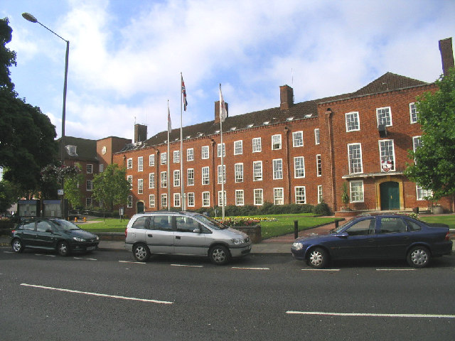 Brentwood Town Hall and Council Offices, Essex Located in Ingrave Road.